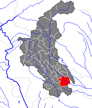 This map shows the area of the Gemeinde (municipality) Sinabelkirchen in the Bezirk (district) Weiz, Styria, Austria.